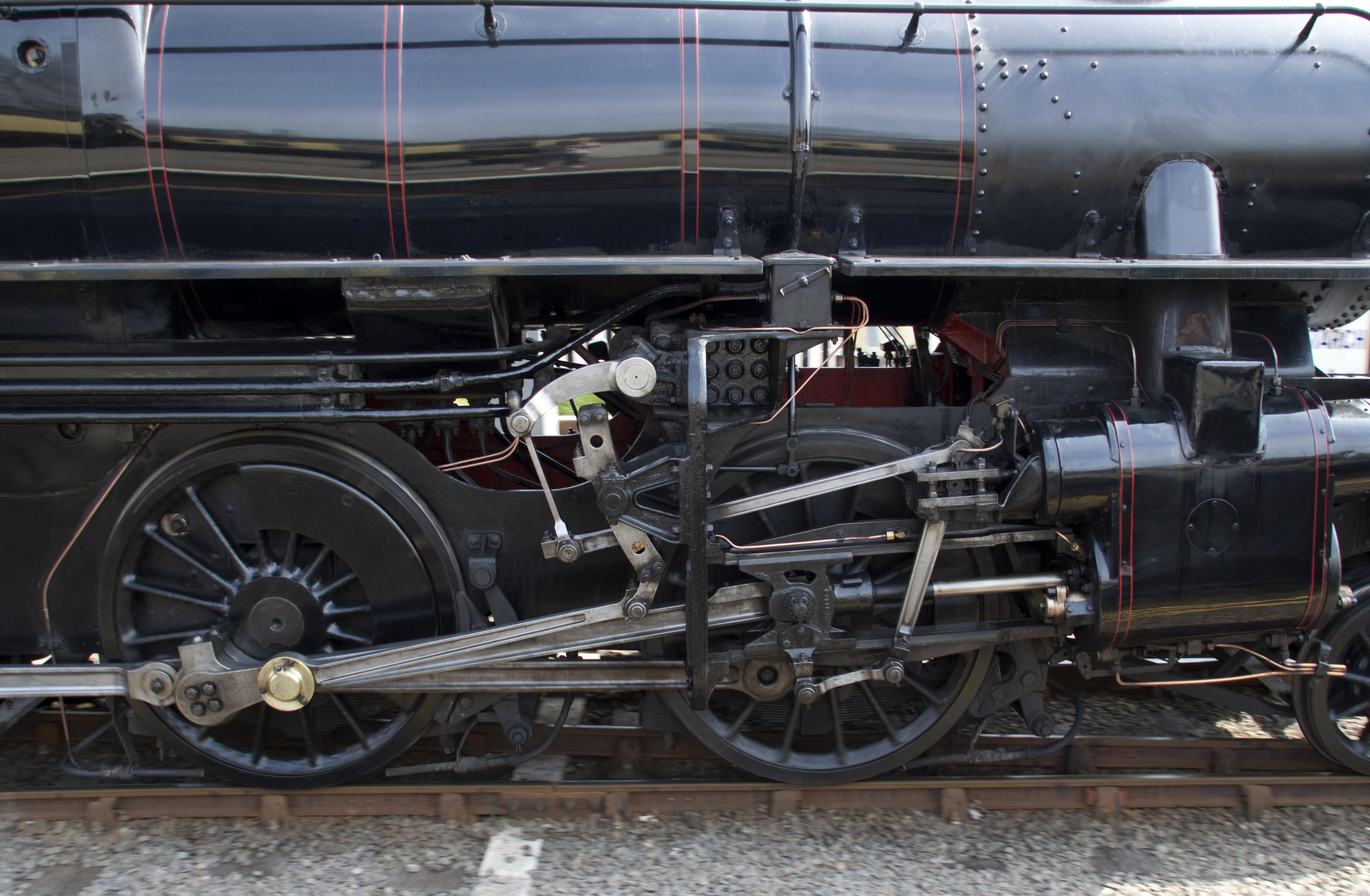 43106 Valve Gear